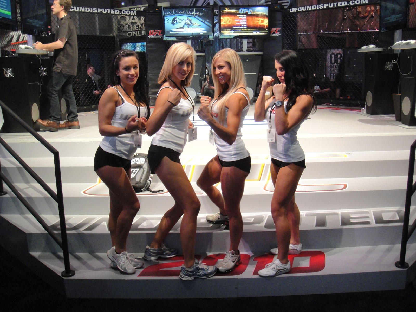 Promotion at the E3 Expo 2010